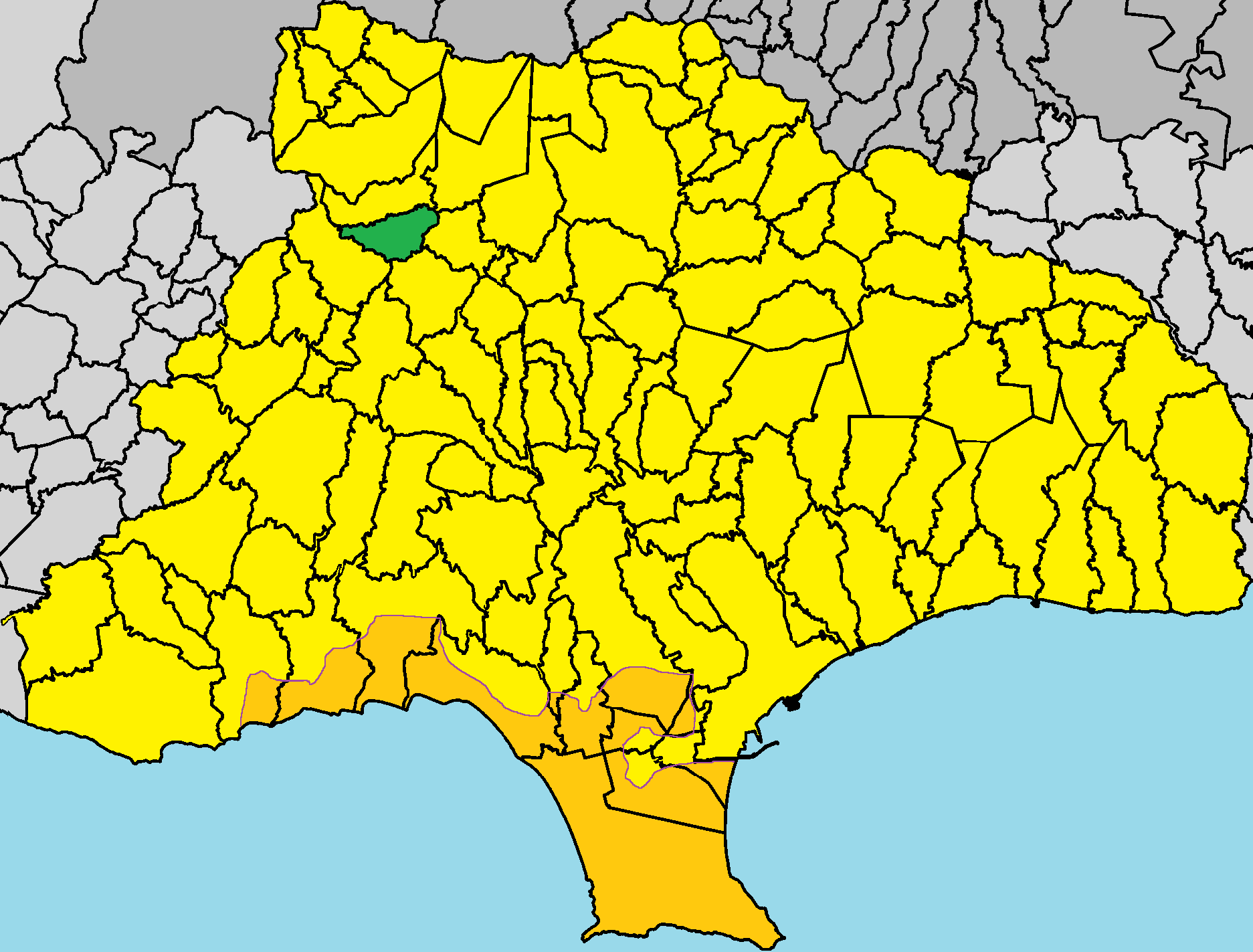 Mandria, Limassol in Limassol District.